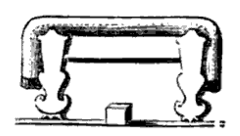 Bisellium was a VIP chair in the Ancient Rome (mostly colonies). Sized for two people, it was intended for just one person. This is an 1878 drawing based on a relief from Pompeii.